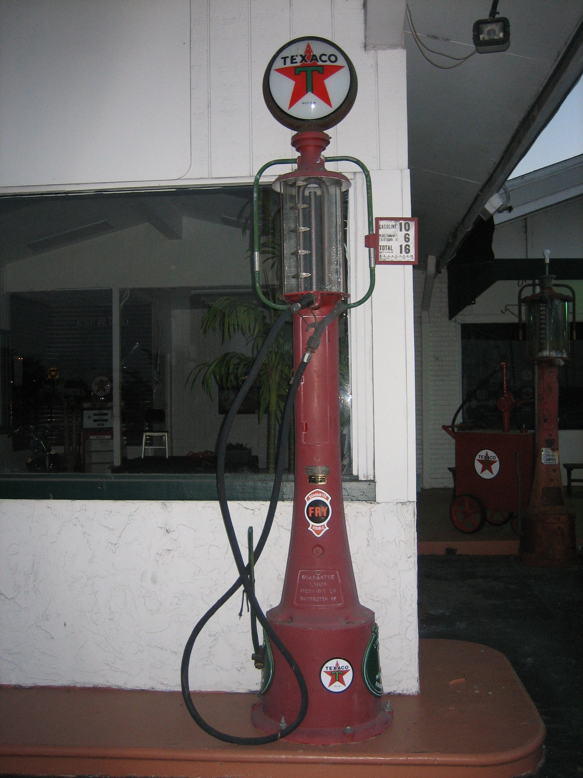 Old style US gas pump seen in Florida